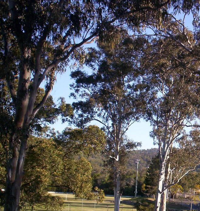 The Gap - showing Eucalyptus Trees ( this photograph was taken by Figaro )